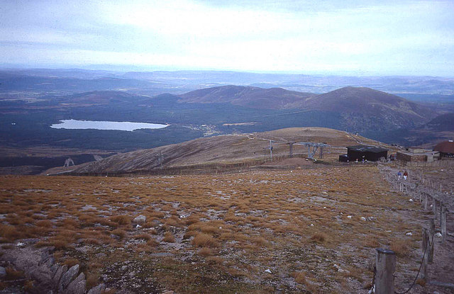 Chairlift to Ptarmigan in 1991 Autumn view from the path to the summit with Loch Morlich to the left below. In the days before the railway, the White Lady Chairlift took visitors up, the 'restaurant' was very basic and you could walk on up to take in the panoramic views to the south from the summit.